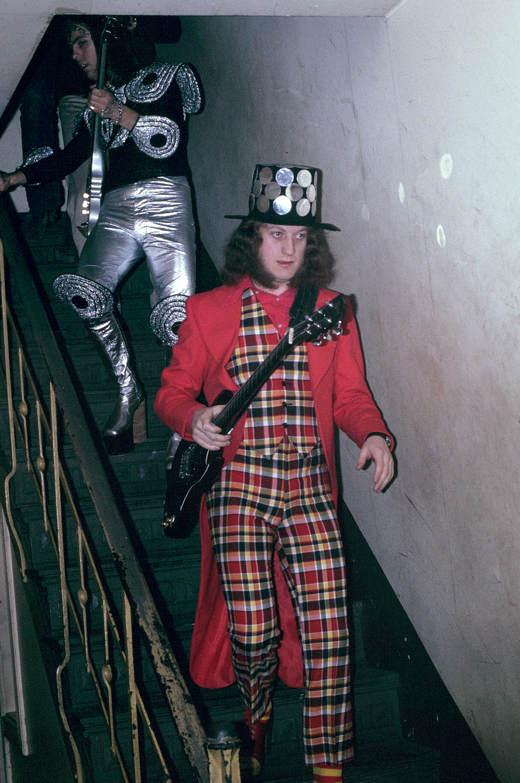 Noddy Holder, English rock musician of the band Slade